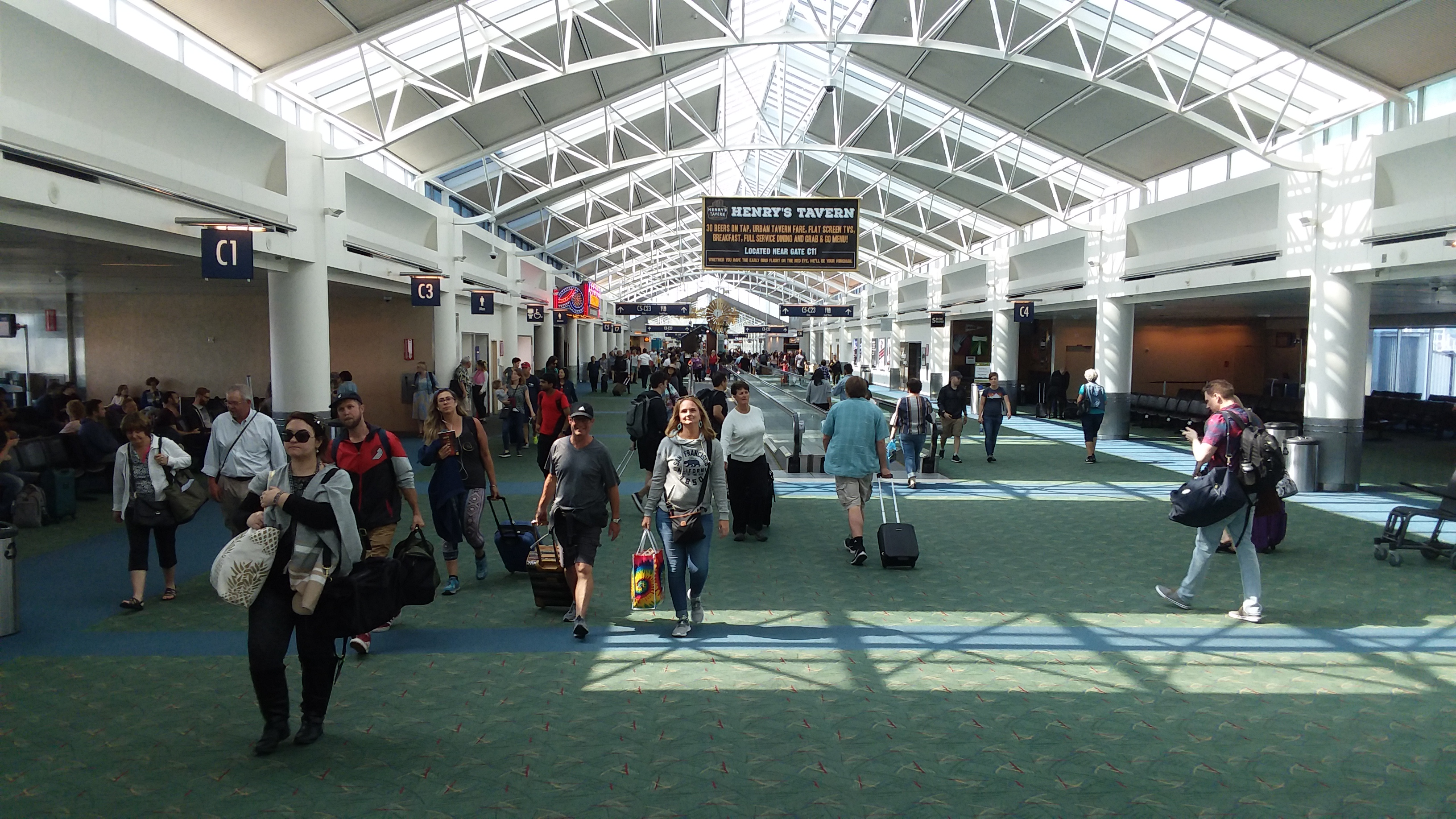 Concourse C at PDX